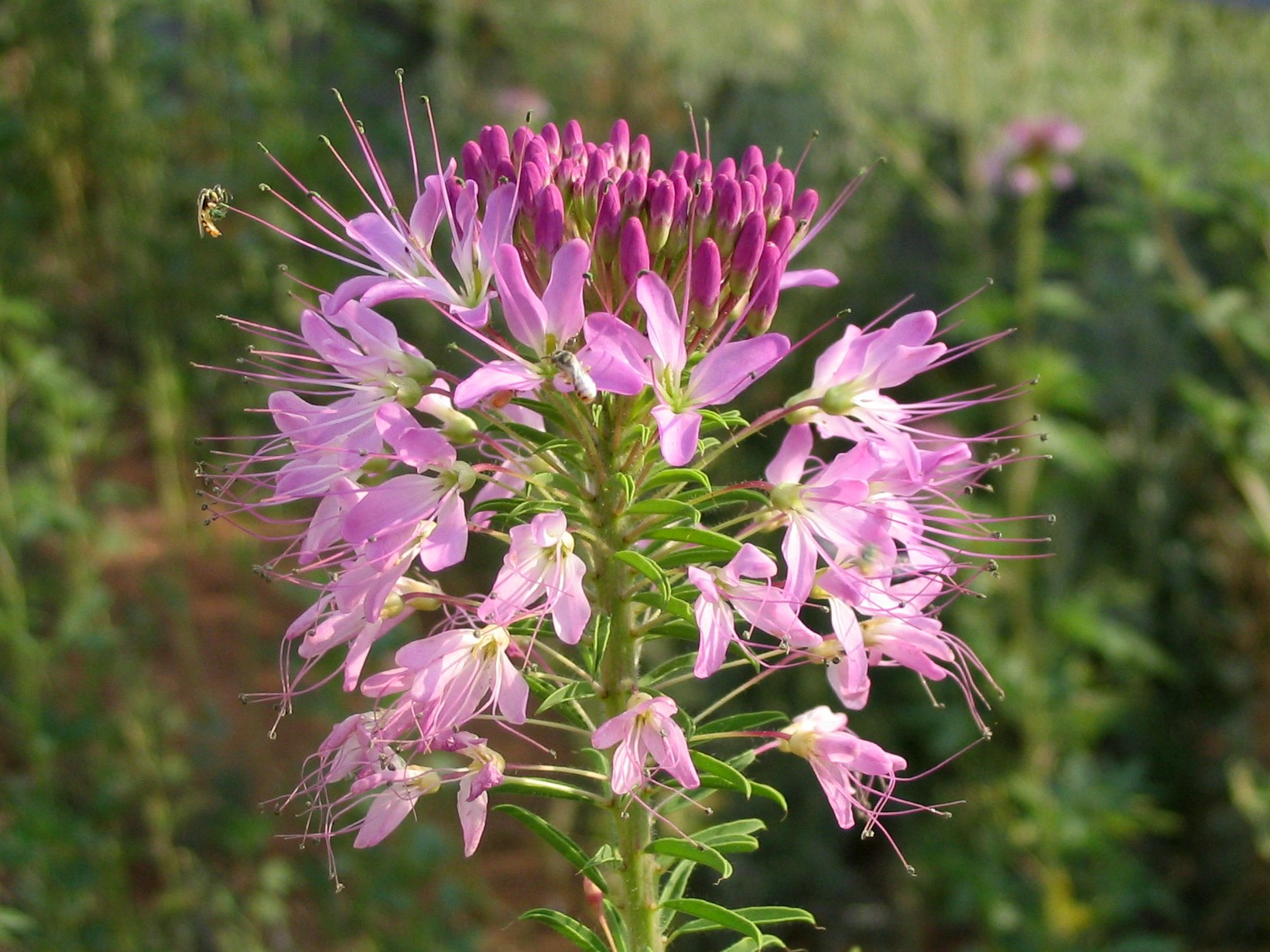 Cleome serrulata Pursh - Rocky Mountain beeplantKane County, Utah, USA